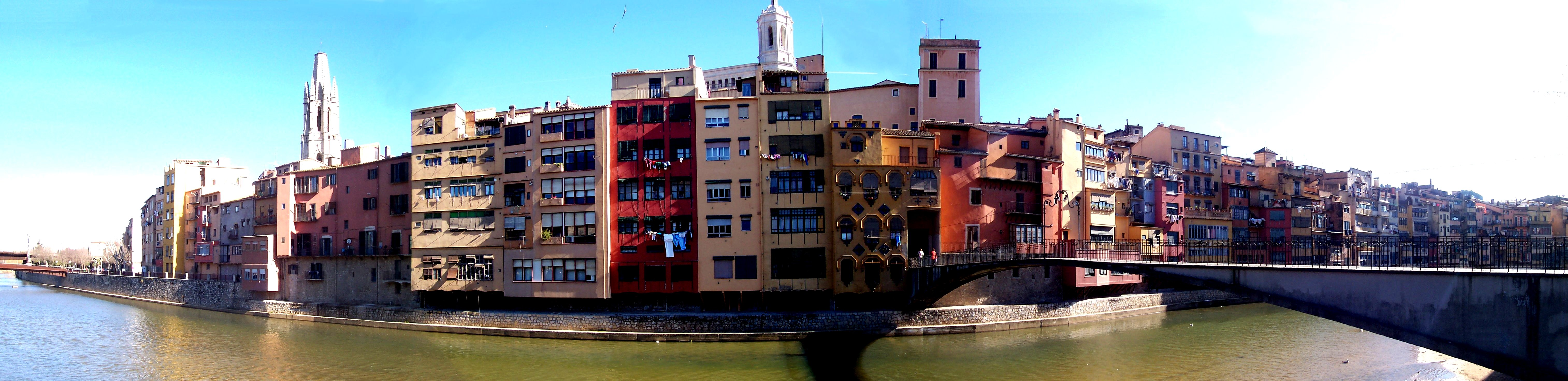 Panorama of the houses of the Onyar river, in Girona, Catalonia. In the background, the Cathedral and Sant Feliu Church.